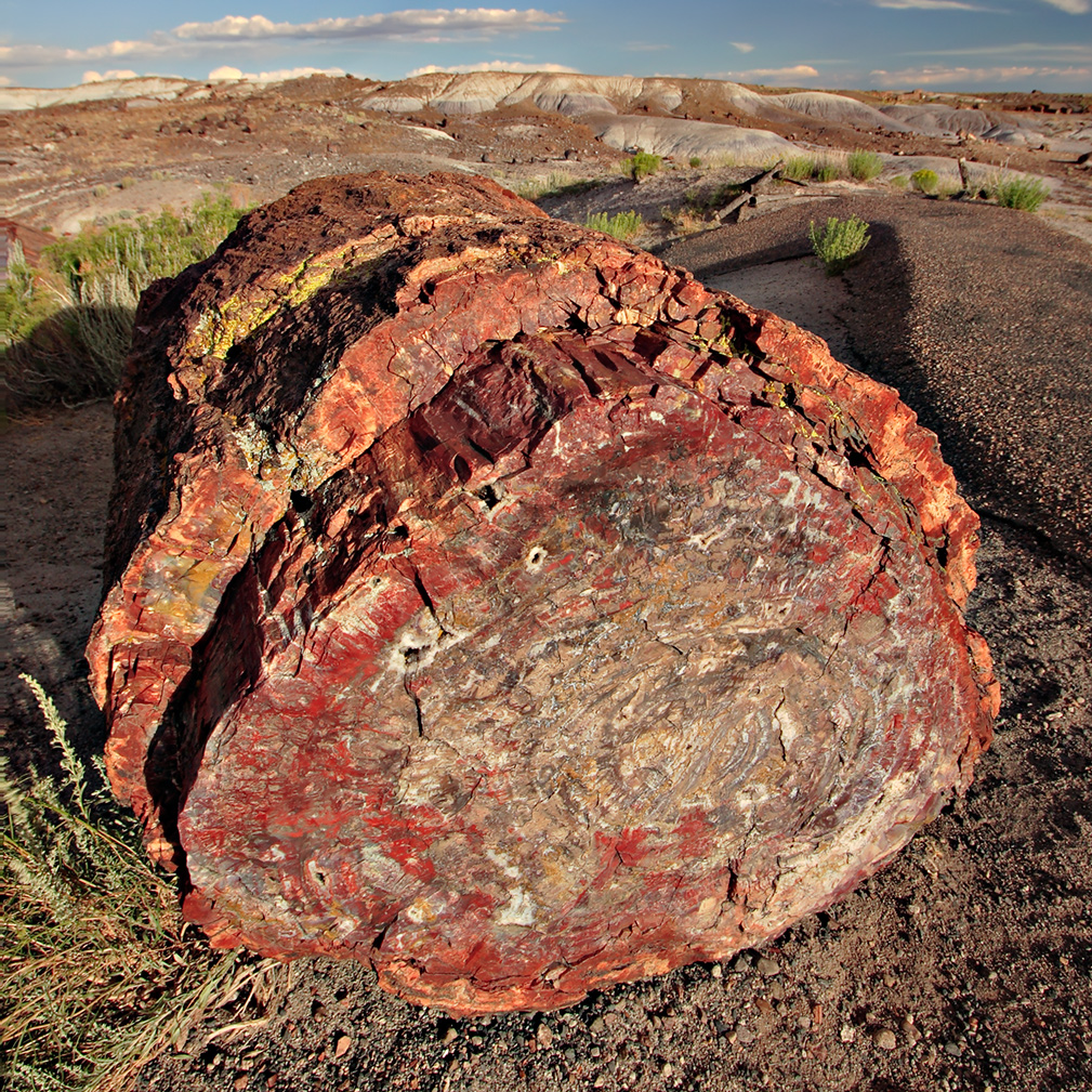 A petrified log in Petrified Forest National Park, Arizona, U.S.A.